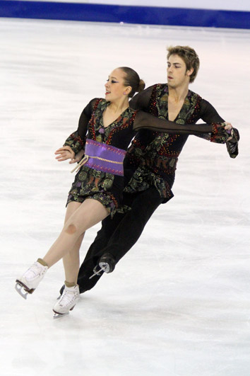 Geraldine BOTT and Neil BROWN at the 2010 Junior World Championships